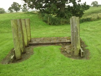 Vindolanda (Chesterholm) Roman forts, civil settlement and cemeteries, adjacent length of the Stanegate Roman road and two miles Wikidata has entry Q17668738 with data related to this item.